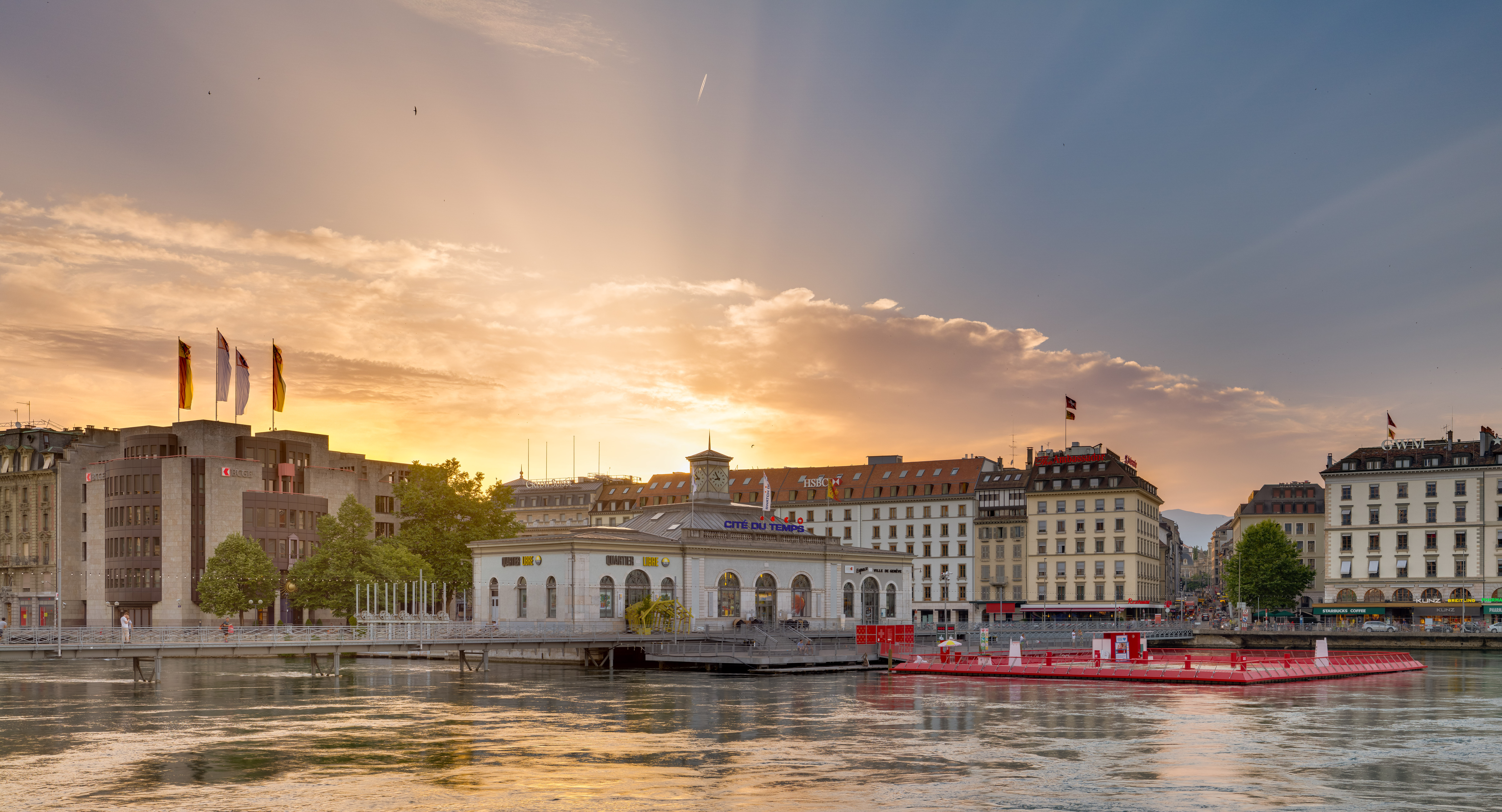 Sunset's crepuscular rays over the Pont de la Machine and the Espace Ville de Genève, in Geneva, Switzerland.